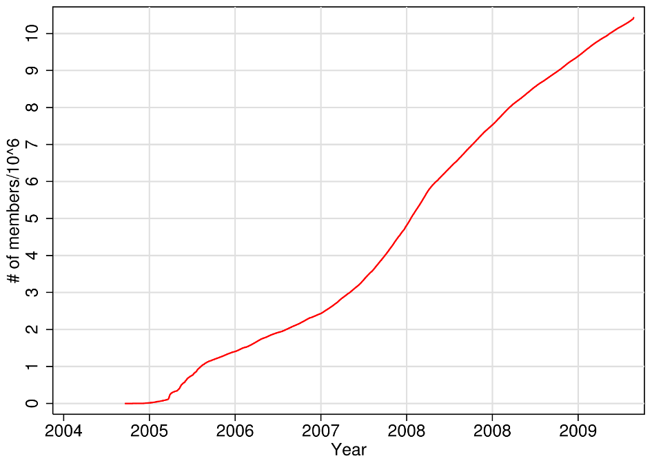 Growth over time of the Dutch social network Hyves.